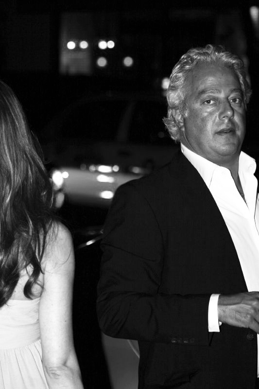 Real estate developer Aby Rosen and the back of his wife, Samantha Boardman, as they arrived for the 2007 Whitney Museum of American Art Gala and Studio Party “Shades of Gray” Honoring Chuck Close.